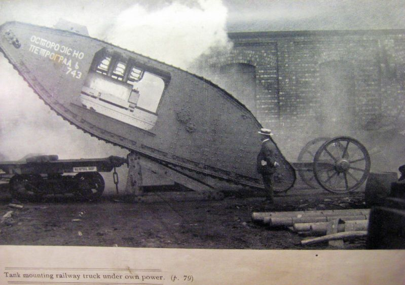 Illustration from British book about tanks published in 1920-s